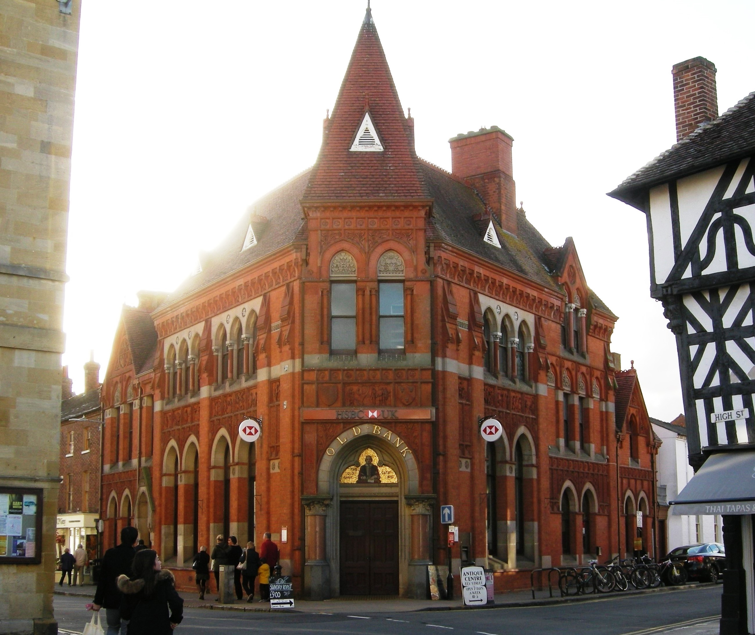 The "Old Bank" (now a branch of HSBC), corner of Chapel St and Ely St, Stratford-upon-Avon, Warwickshire. Built 1883 for the Birmingham Banking Company: designed by Harris, Martin and Harris of Birmingham, with reliefs of Shakespearean scenes by Samuel Barfield of Leicester.